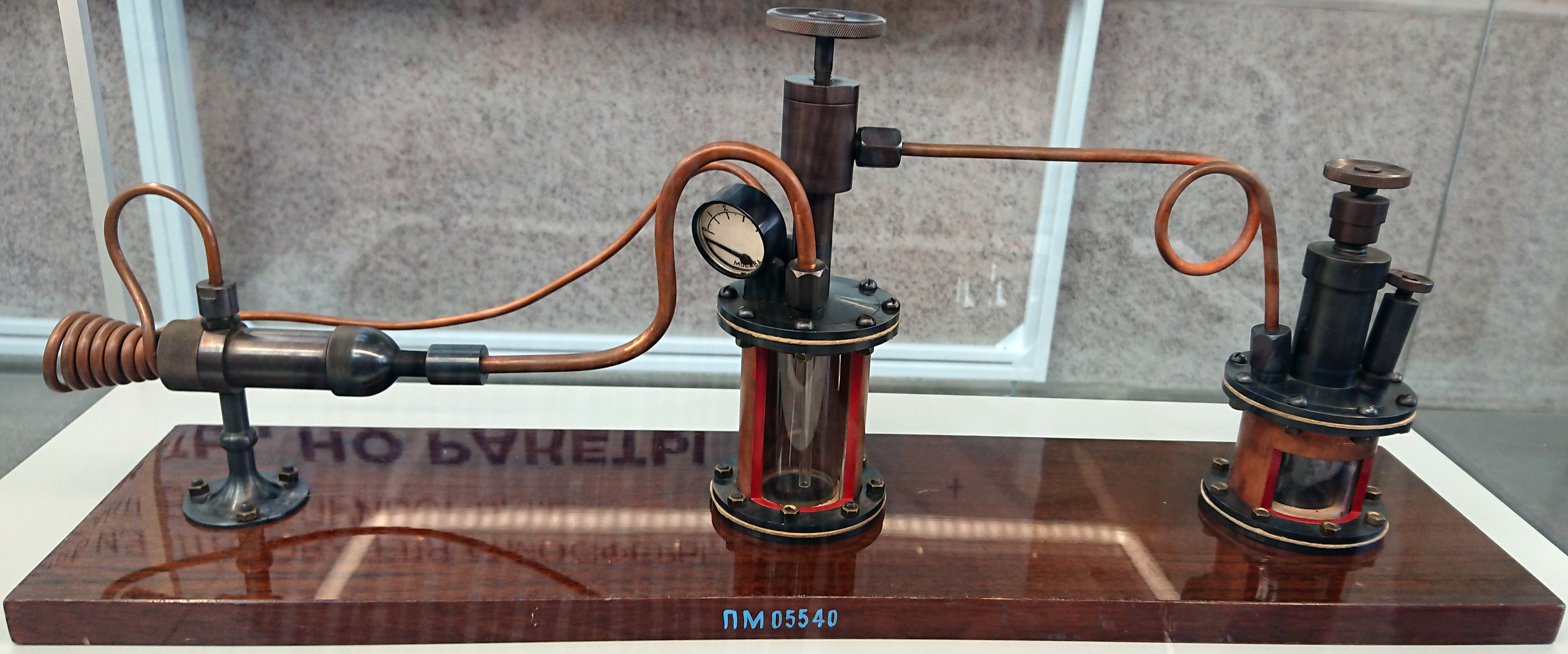 Demonstration installation of jet engine 1933. GIRD. Collection of the Polytech. Russia, Moscow, BDNKh, Pavilion № 32 "Cosmos".